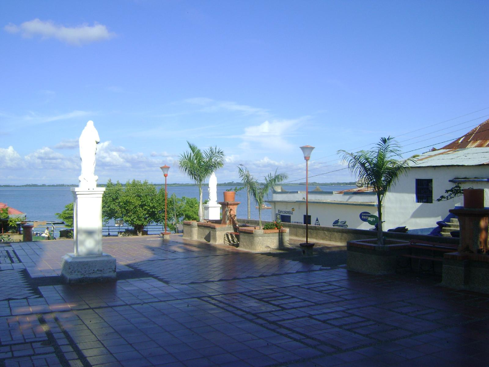 Atrio de la iglesia San Jeronimo de Ayapel, Córdoba